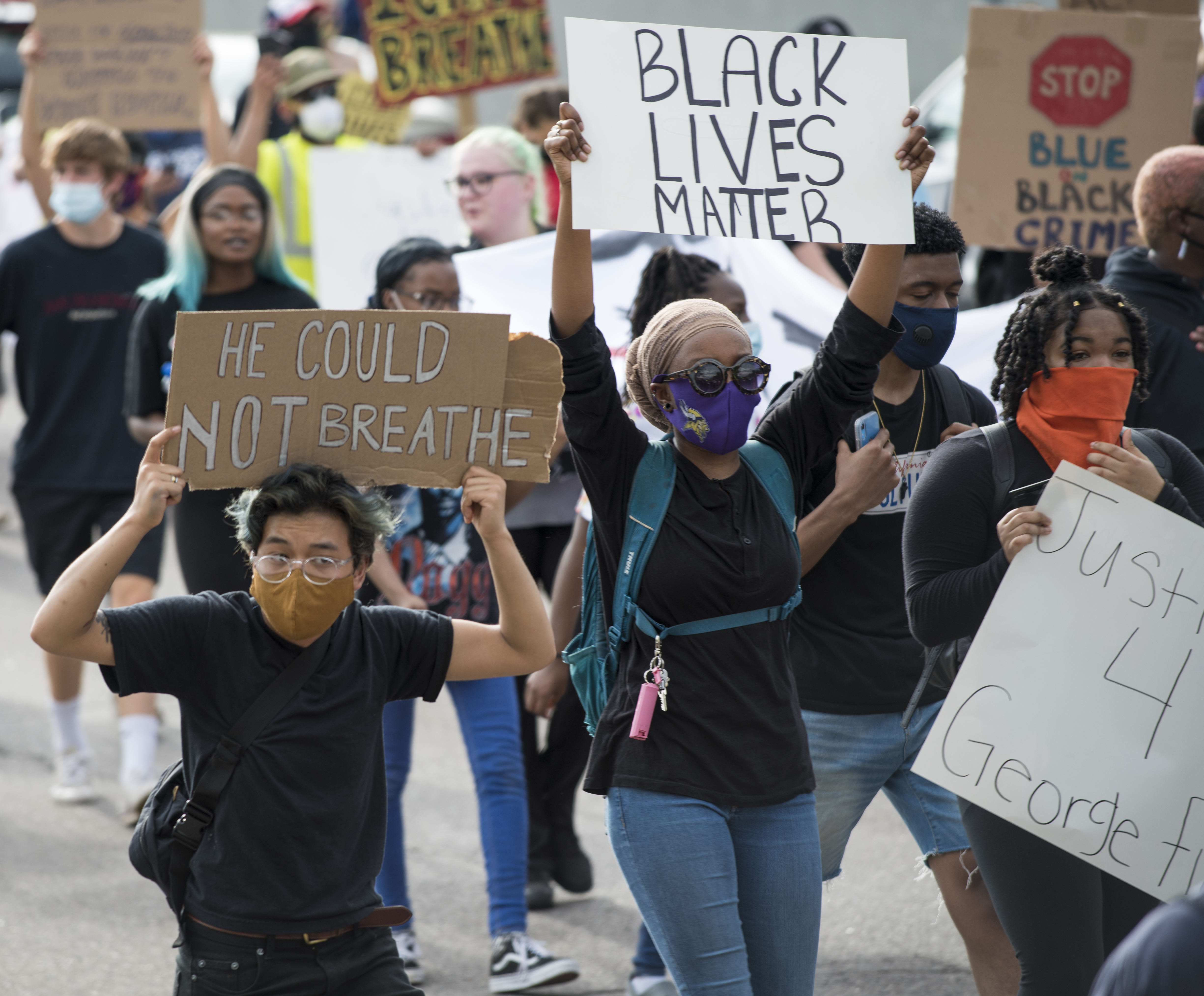 On May 26, 2020, people protested against police violence after the death of George Floyd. Focus on one protester with a "He Could Not Breathe" sign.